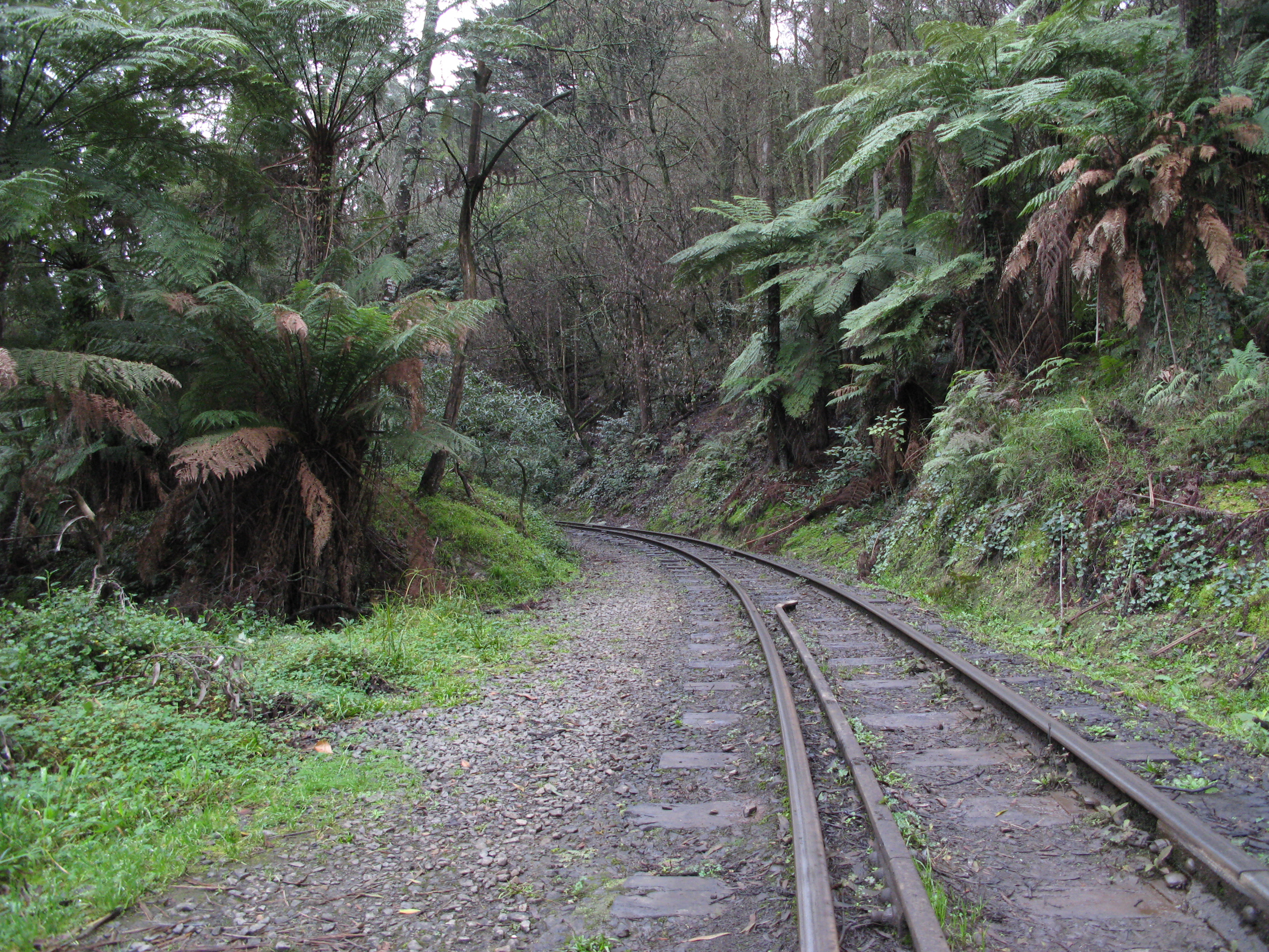 A section of the Puffing Billy Railway line downstream from Monbulk Creek. Photo taken by myself in 2008.